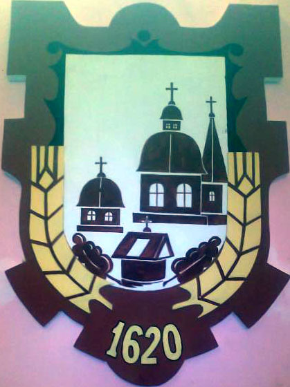 Coat of arms of Malyi Sknyt, Khmelnytskyi Oblast